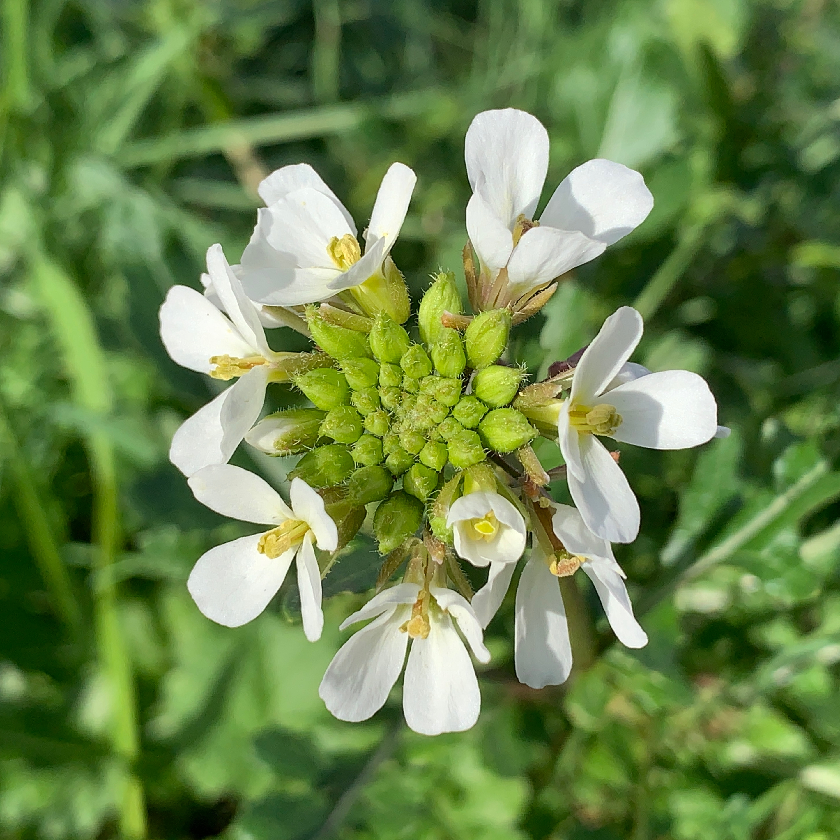 white rocket